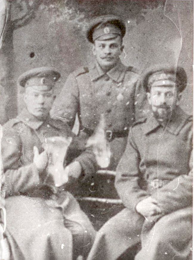 Jan Laube WW1